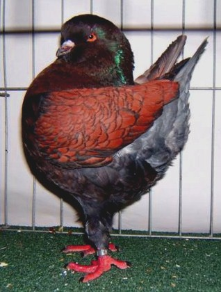 Rex Arnold's 2009 national champion bronze shietti